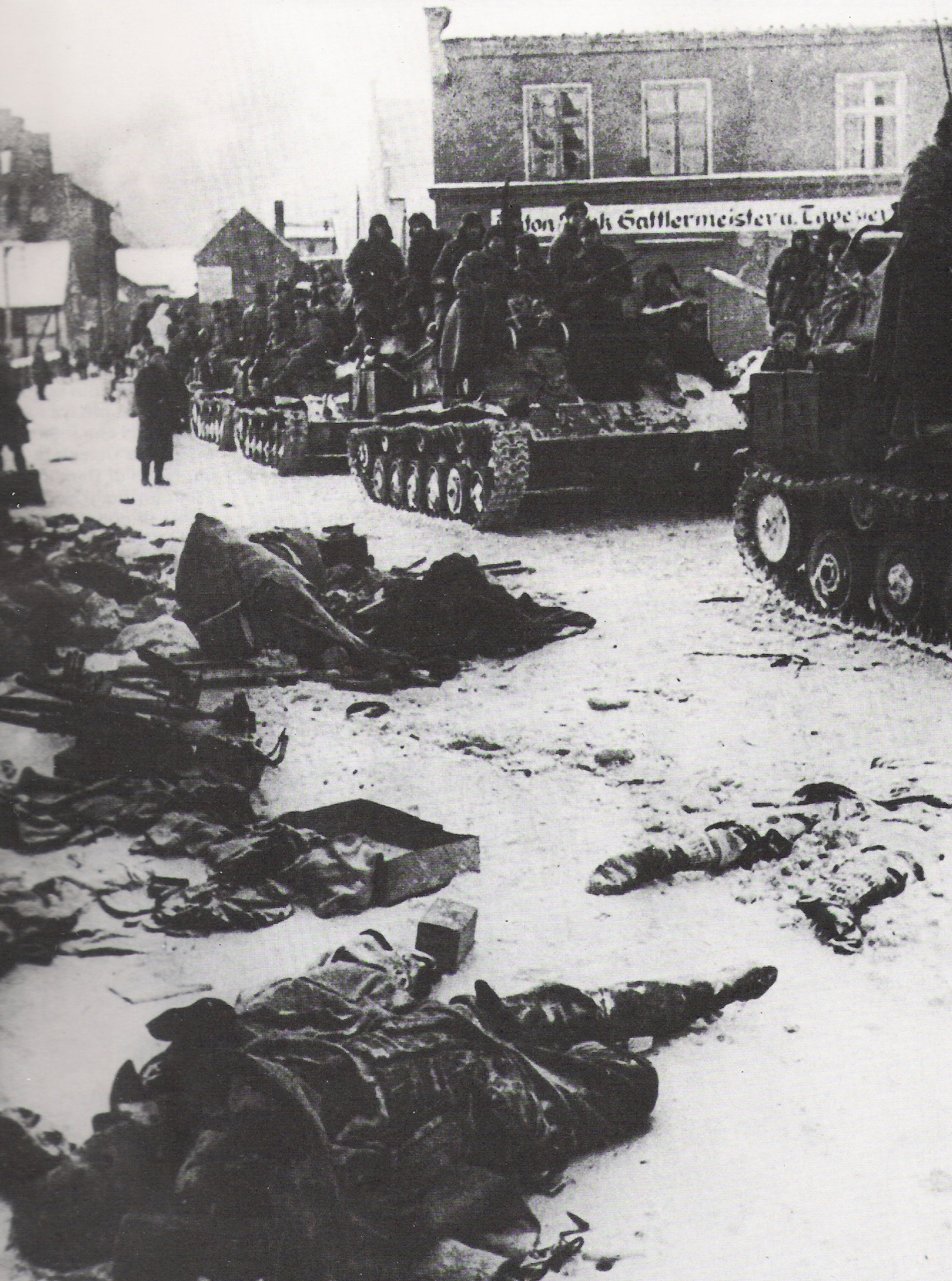 Soviet troops during the Vistula-Oder offensive